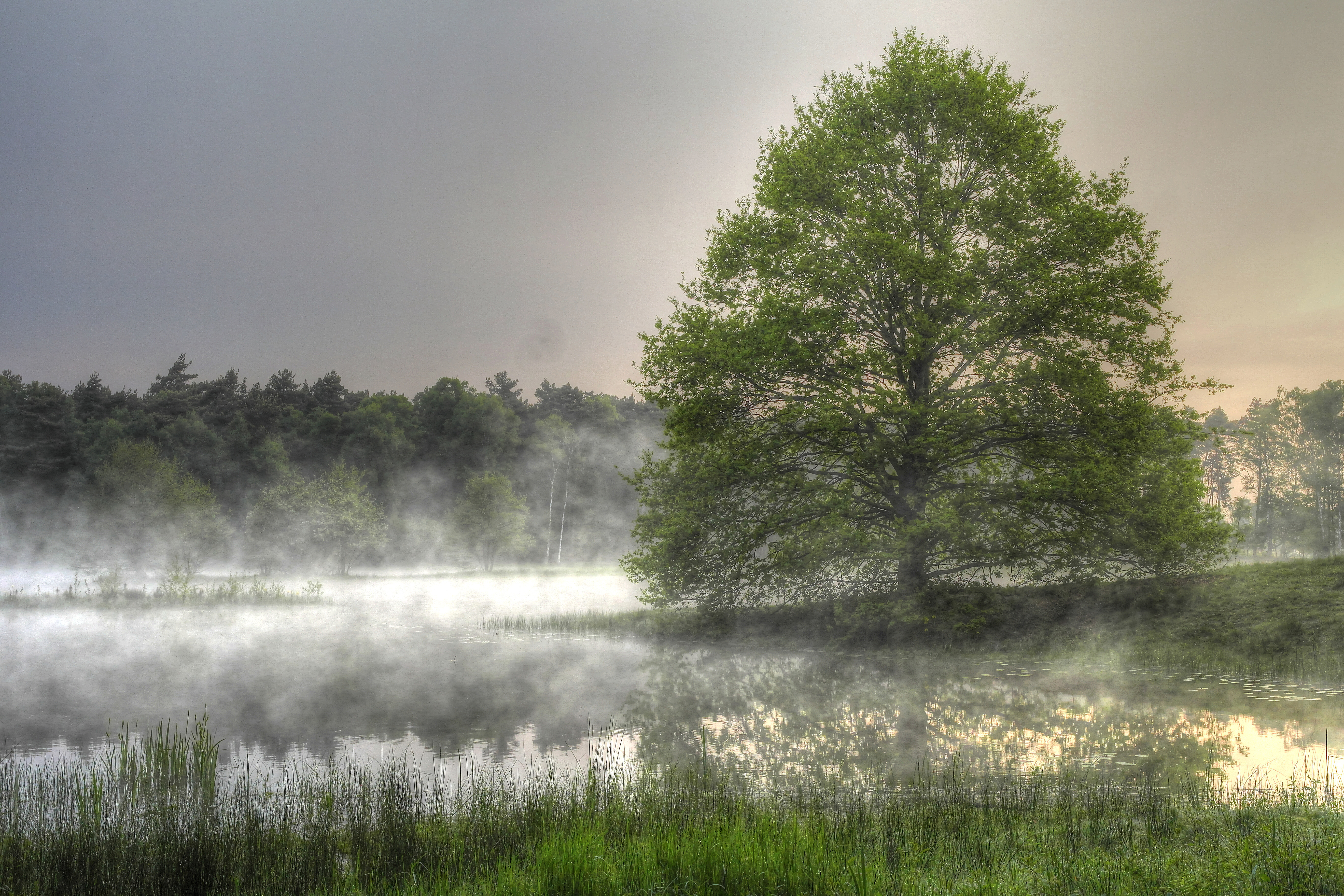 the morning mist are currently on the gnats Pohl in Rahden - Varl ; this is a Heideweiher , was in 1936 designated as a nature reserve and is one of the oldest in Westphalia .